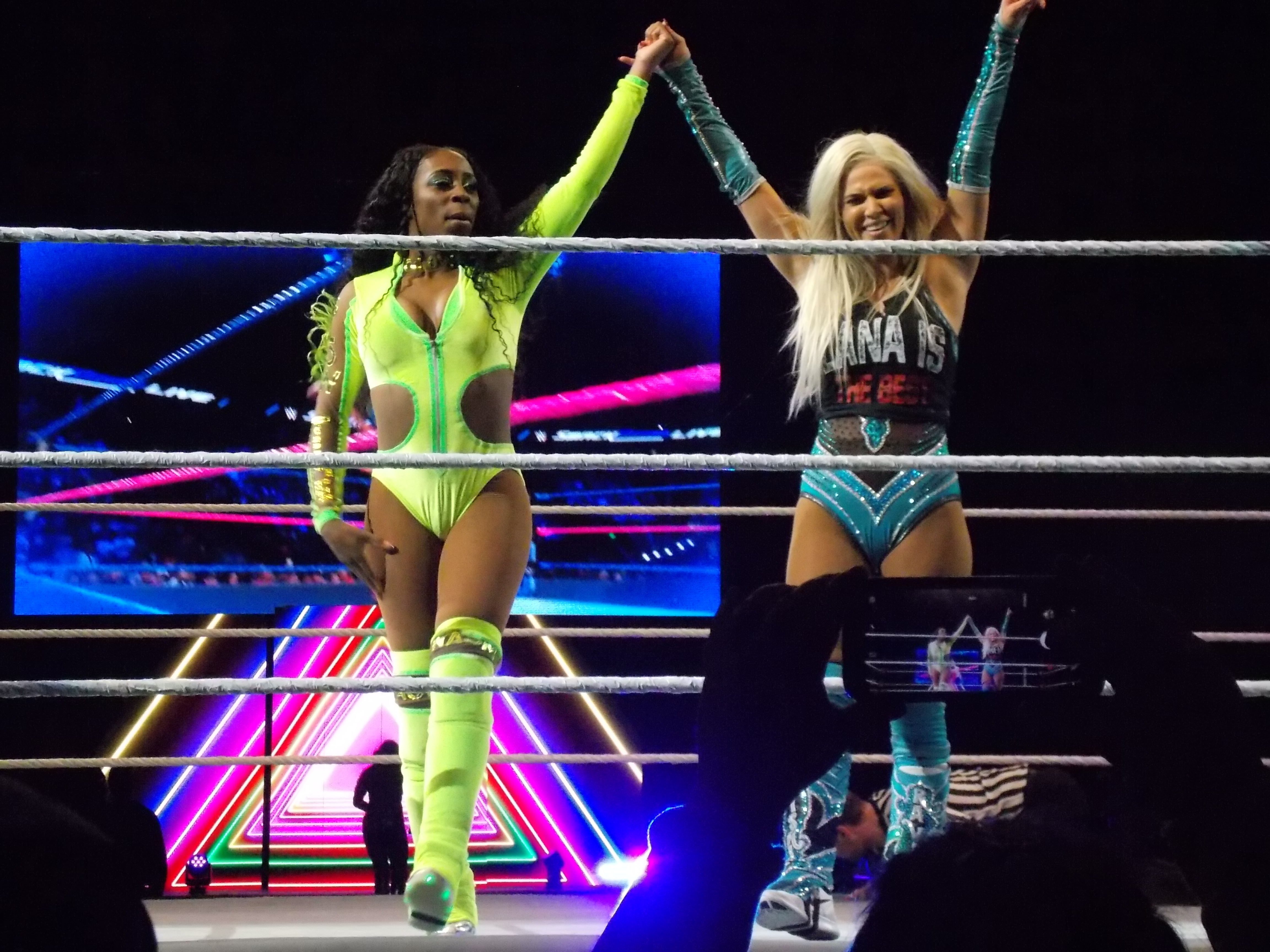 Naomi and Lana at a WWE Live Event House Show in Omaha, Nebraska, USA on Sunday, January 20, 2019